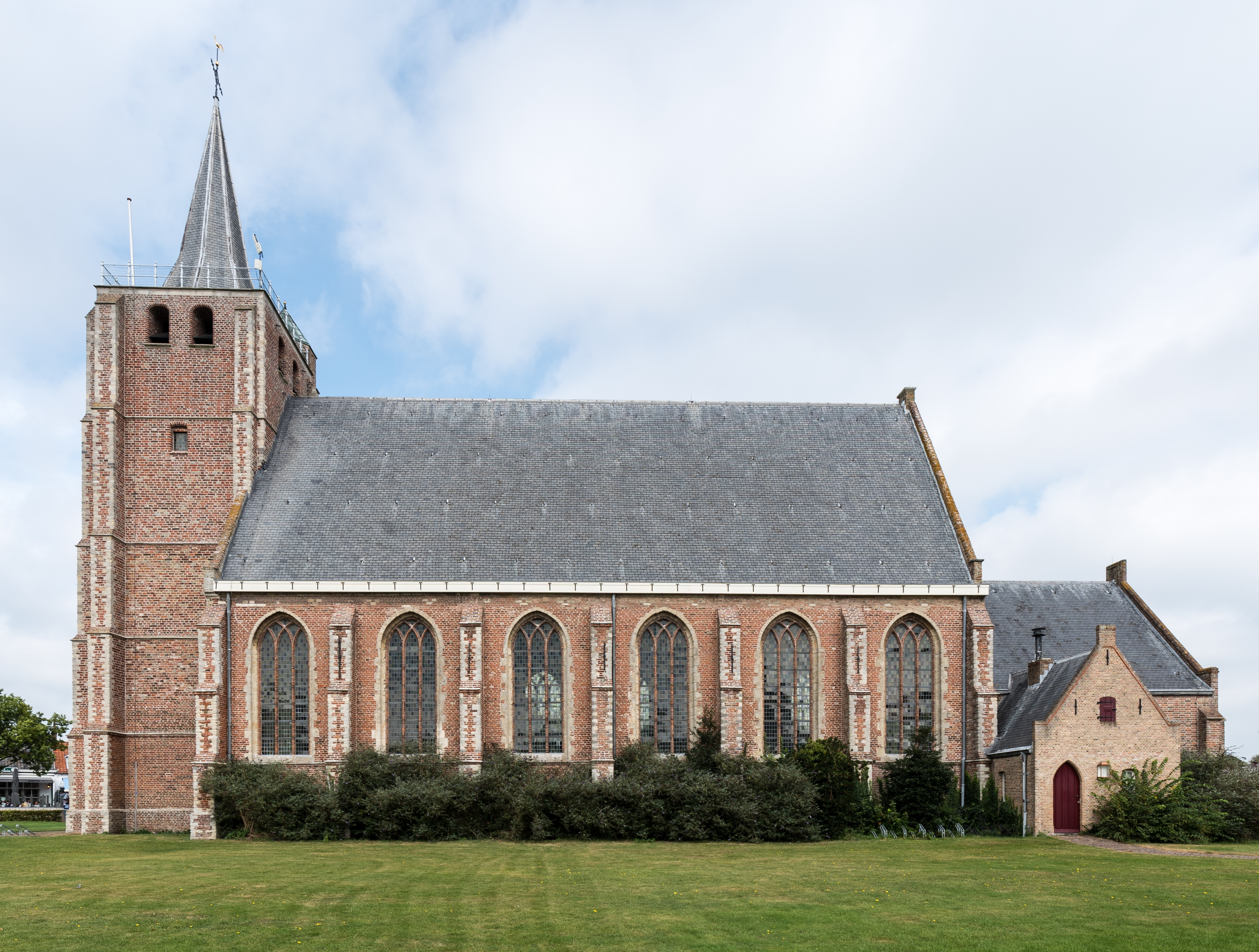 Church Sint Jacobus in Renesse, south side